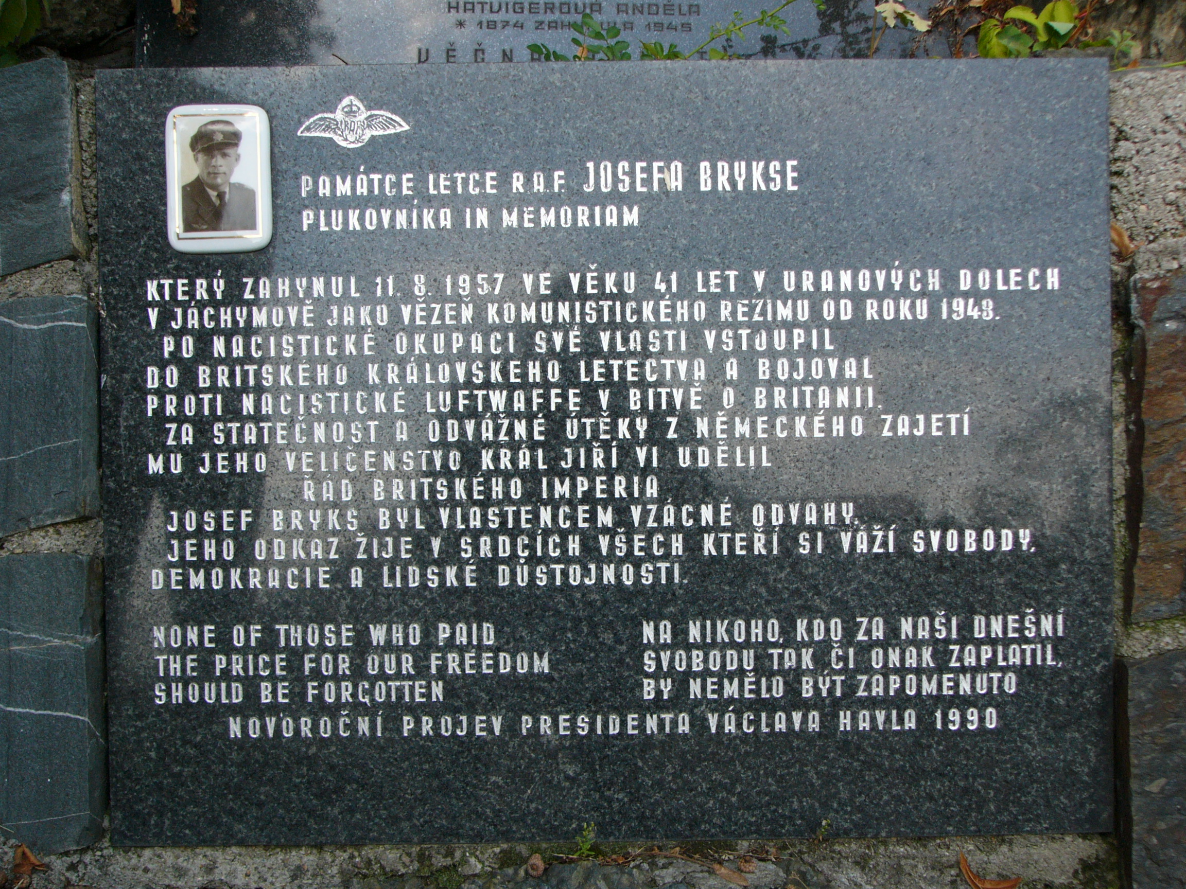 Memorial plaque devoted to Josef Bryks in Bělkovice-Lašťany, the Czech Republic